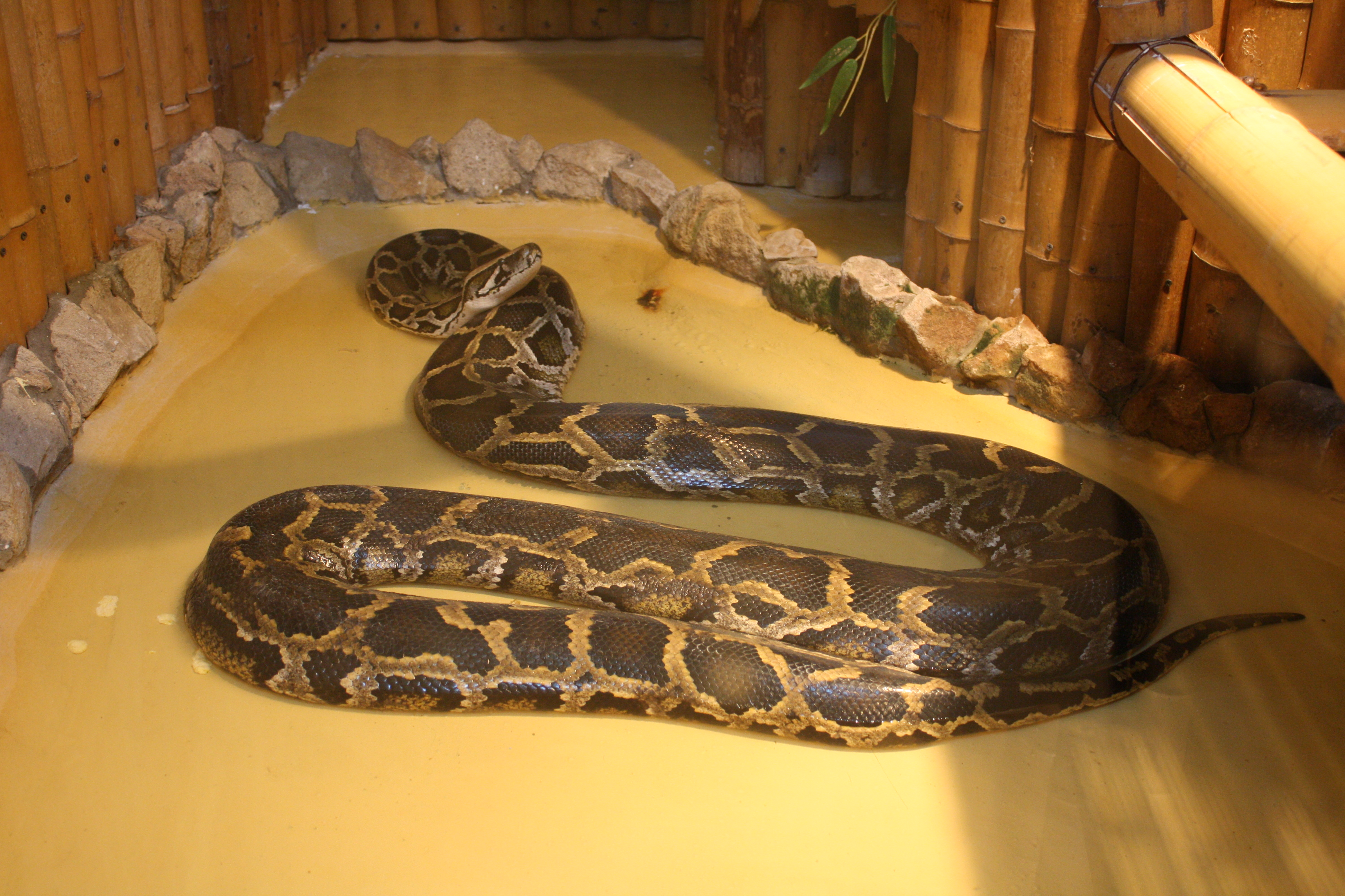 Burmese Python (Python molurus) in zoological garden in Gdańsk